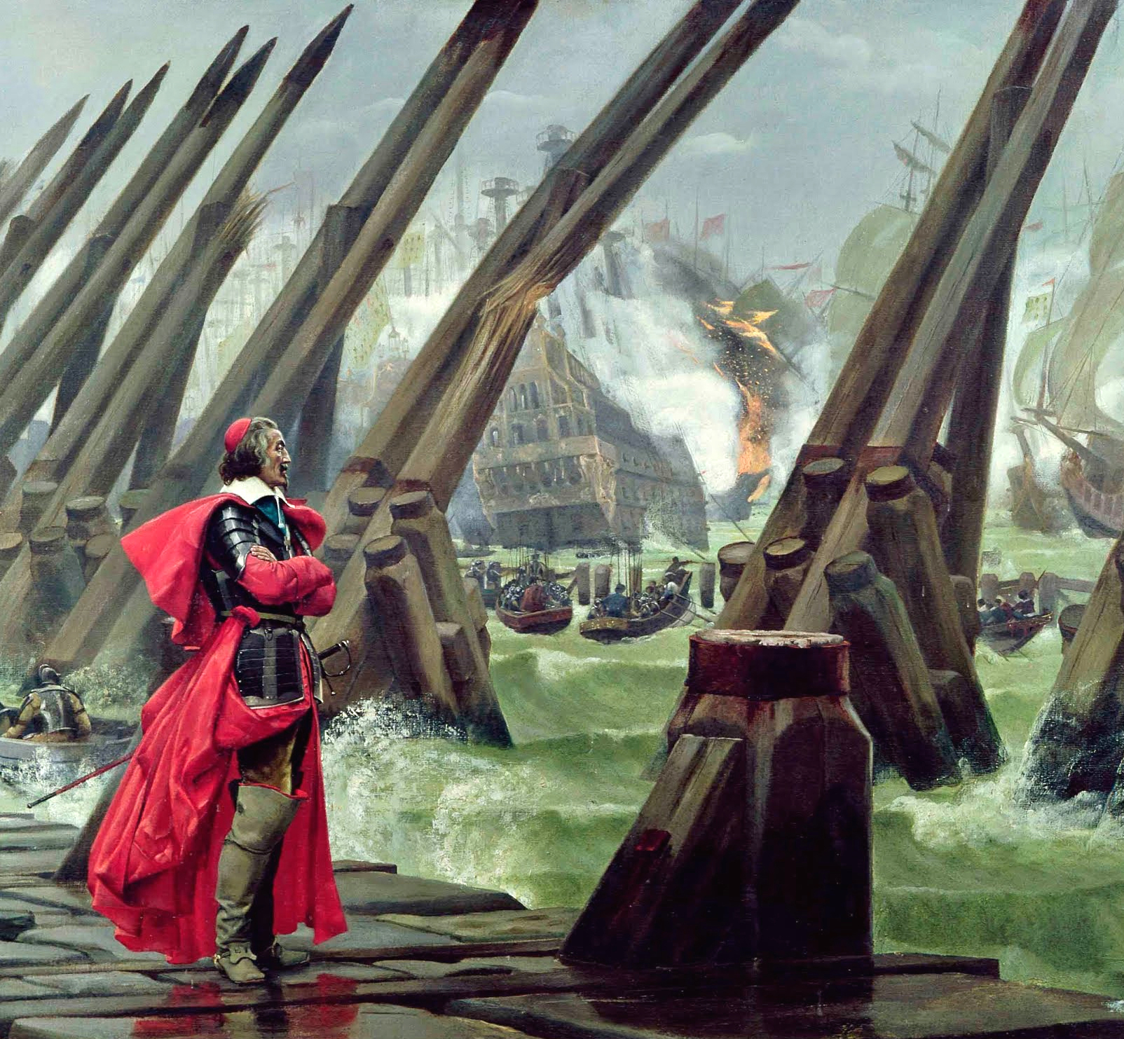 dressed in red: Cardinal de Richelieu